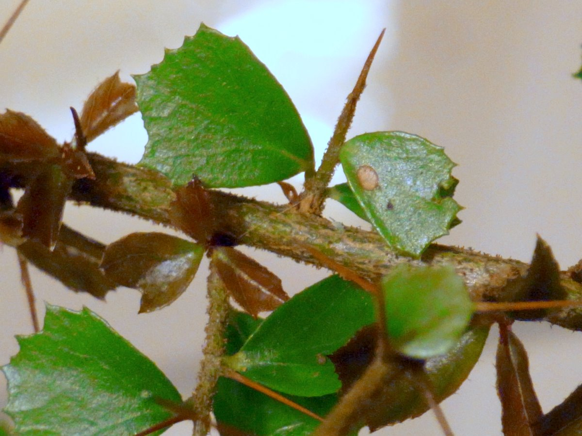 Orange Thorn, from Eastwood, NSW, Australia. Pittosporum multiflorum